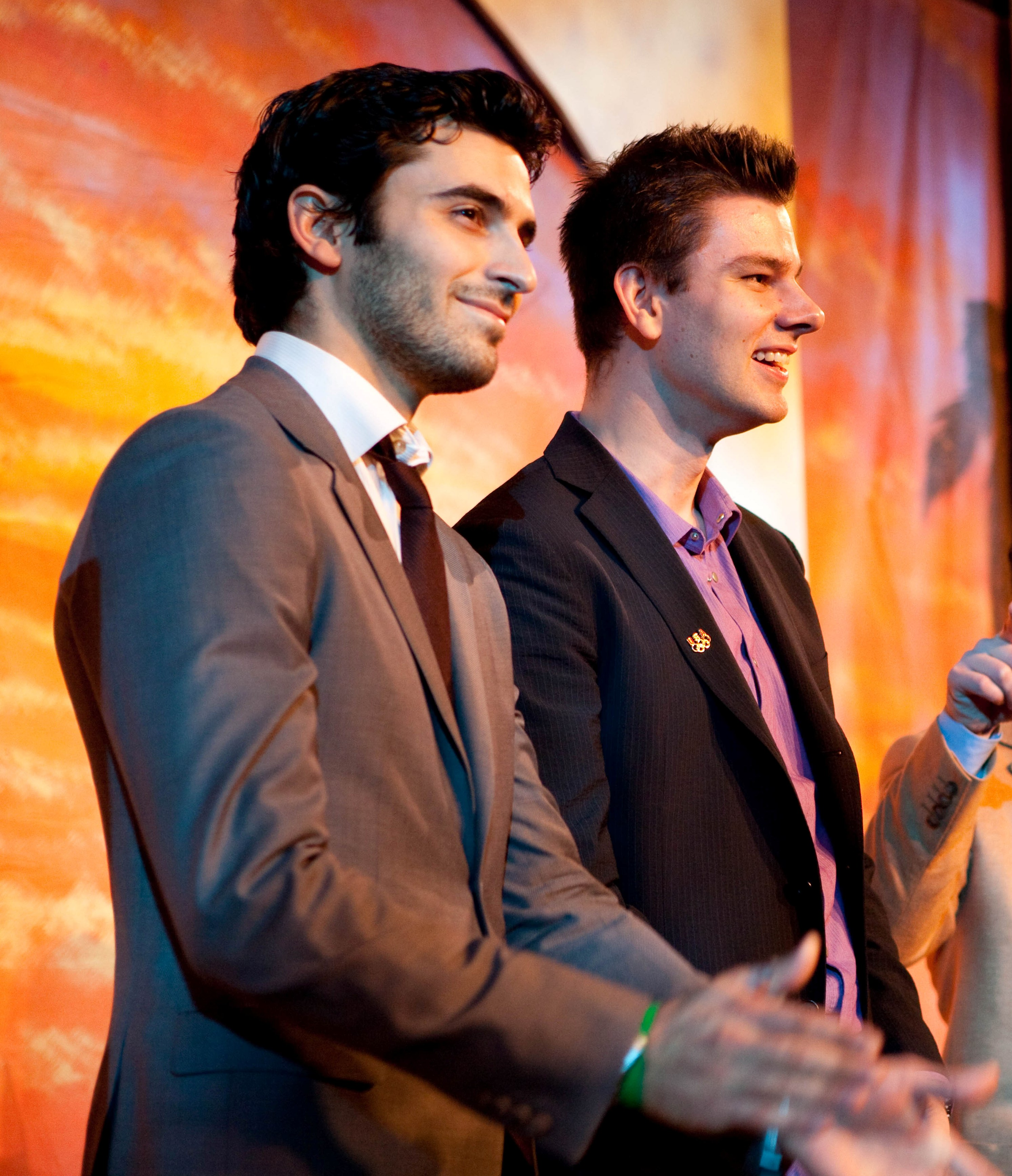 Olympic Silver Medalist fencers Jason Rogers (on the left) and Timothy Morehouse.